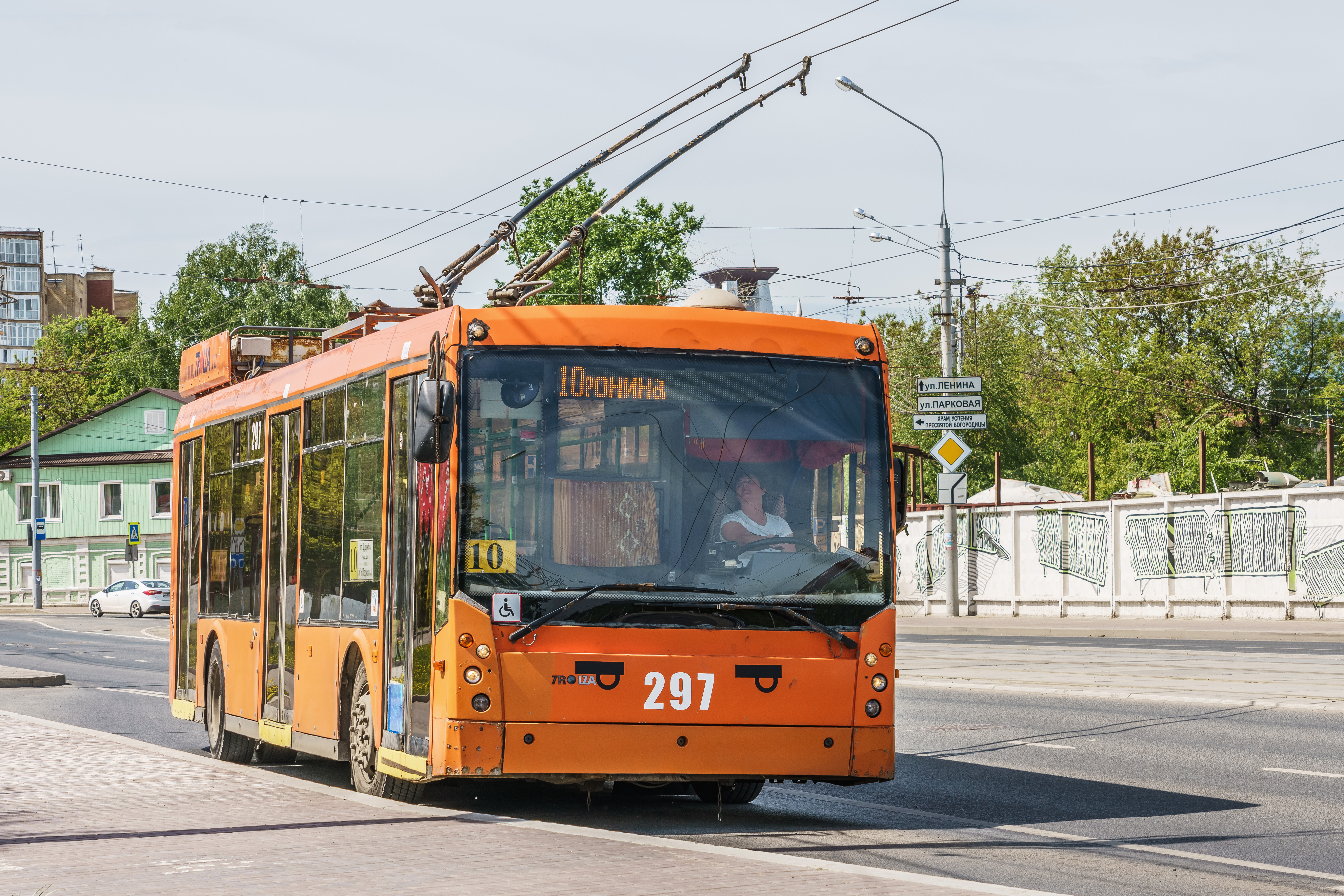 Trolza-5265 trolley on Uralskaya Street (Razgulay stop) in Perm, Russia